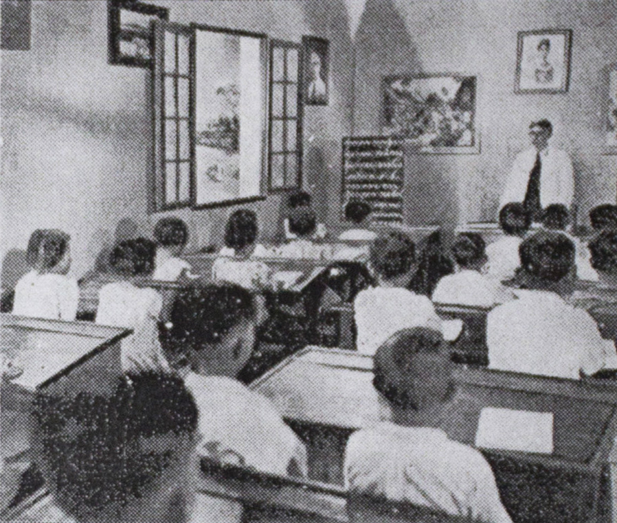 Pah Wongso in a scene from Pah Wongso Pendekar Boediman, completed by Star Film and released in April 1941.